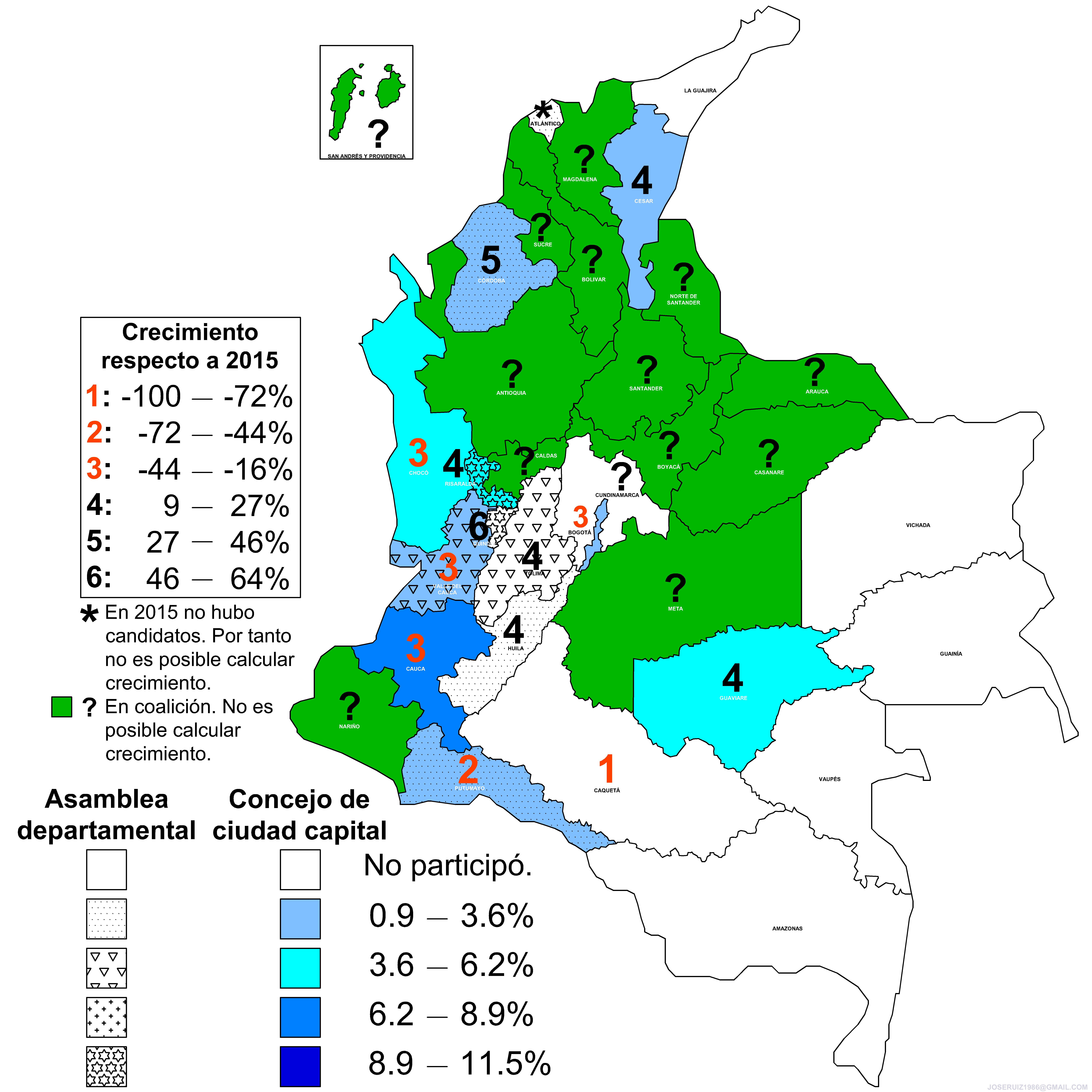 This map summarizes the preliminary results obtained by the MIRA Party in the of the 2019 regional and municipal elections of local authorities of Colombia. This is the map version for Wikipedia in Spanish.